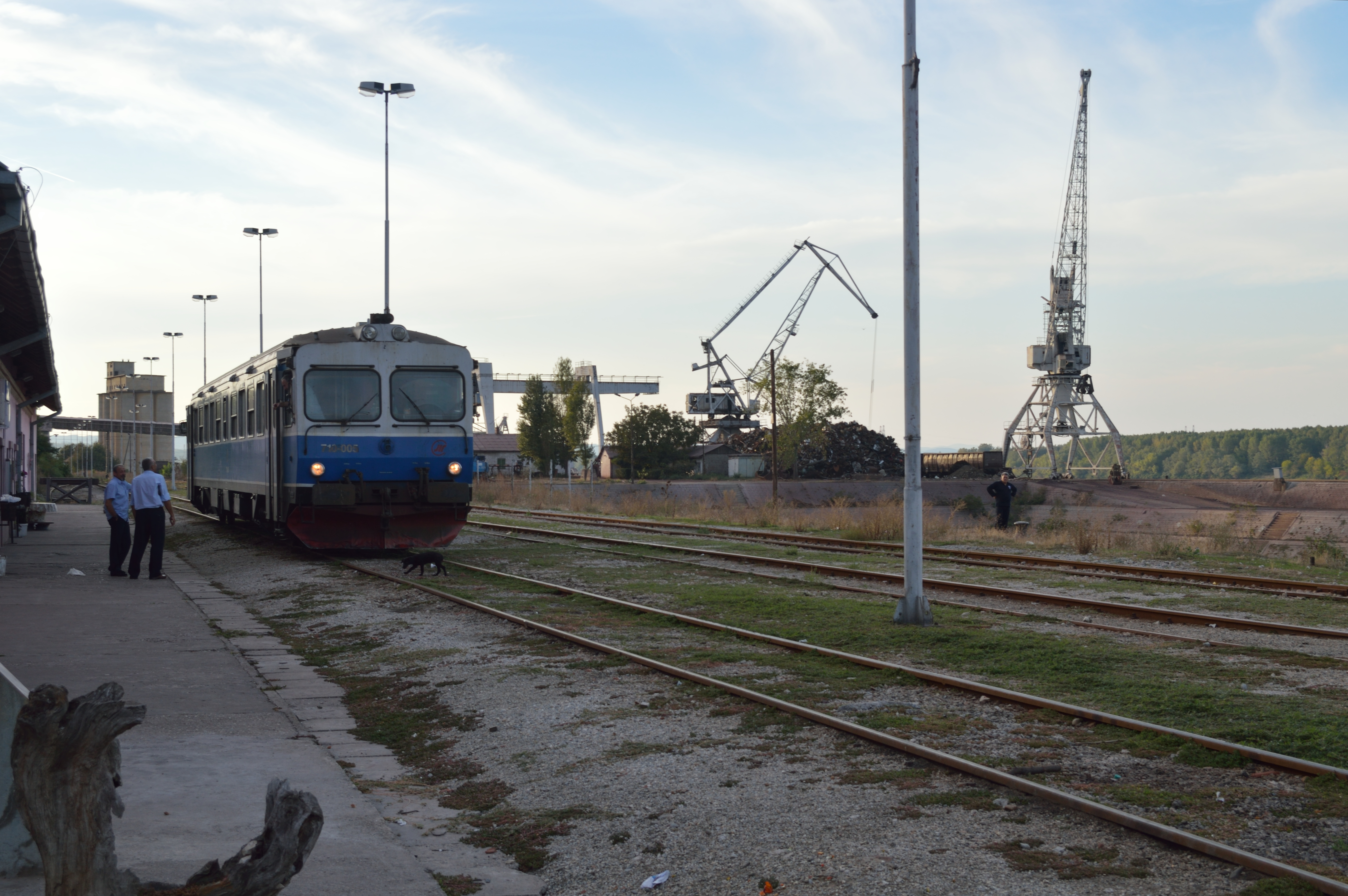 Balkans Rail Trip, Autumn 2013 - Day Four After a long bus journey thanks to inaccurate information published on the Serbian Railways website, I eventually ended up here at Prahovo Pristanište. This station is one of two in the small town of Prahovo, Pristanište means docks which is fairly evident from the photo. The port is actually on the River Danube and at this point separates Serbia and Romania which can be seen in background to the right. The line sees some freight traffic as well as three return passenger trains per day with one further service terminating at Negotin a few kilometres further south. Seen here on 26 September 2013, former Swedish Railways class Y1 railcar now numbered 710.005 has arrived on train 2774, 15:20 Zaječar to Prahovo Pristanište. Note again, due to poor data stored on the Flickr map, the location given is not correct & represents a town on the opposite side of the river in Romania.